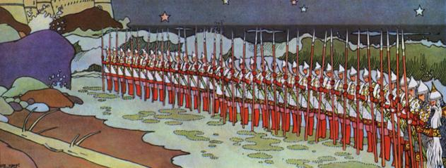 An illustration of Pushkin's The Tale of Tsar Saltan.